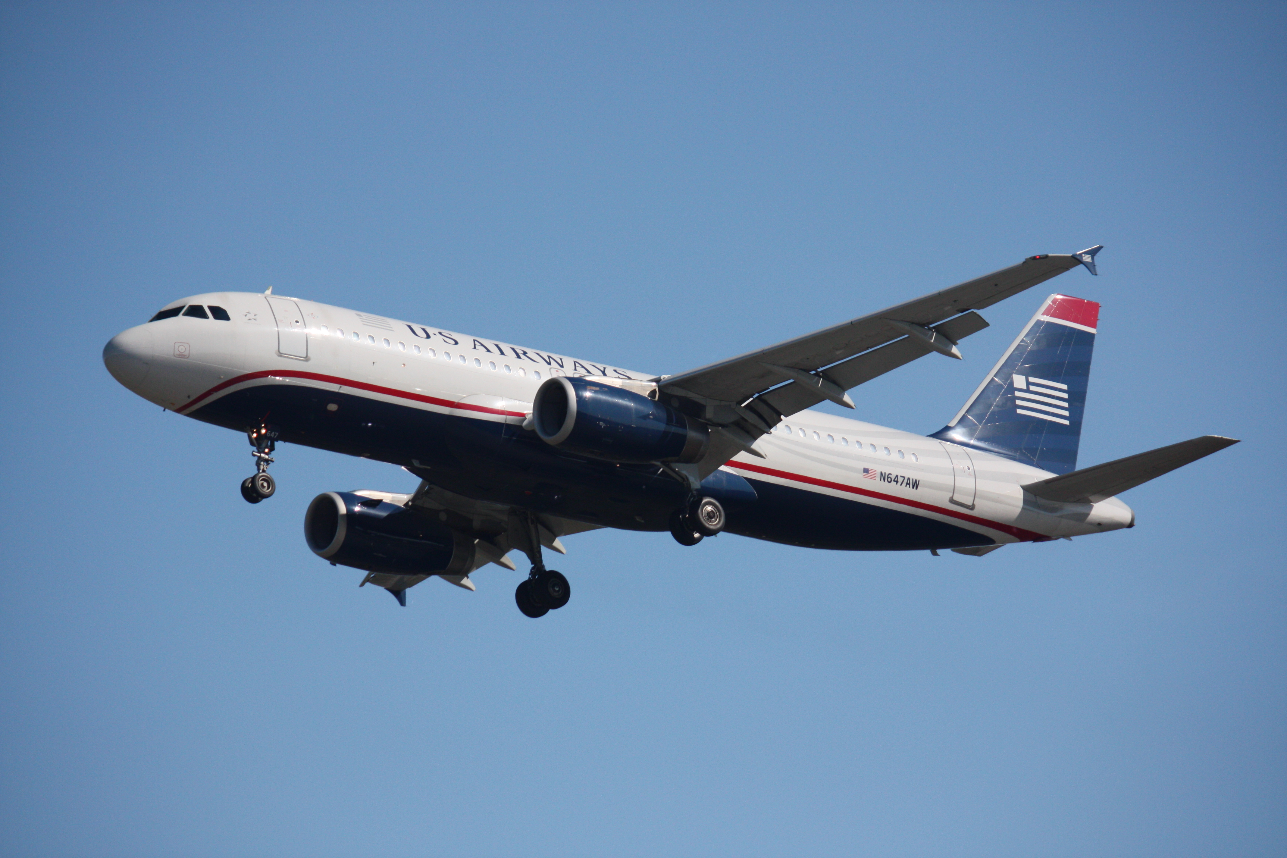 A US Airways (formerly America West) Airbus A320-232, tail number N647AW, landing at Vancouver International Airport